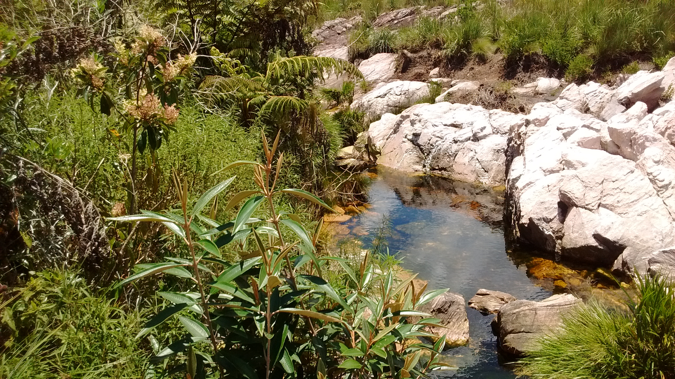 Source of Saint Francis River at Serra da Canastra National Park in São Roque de Minas, Brazil.